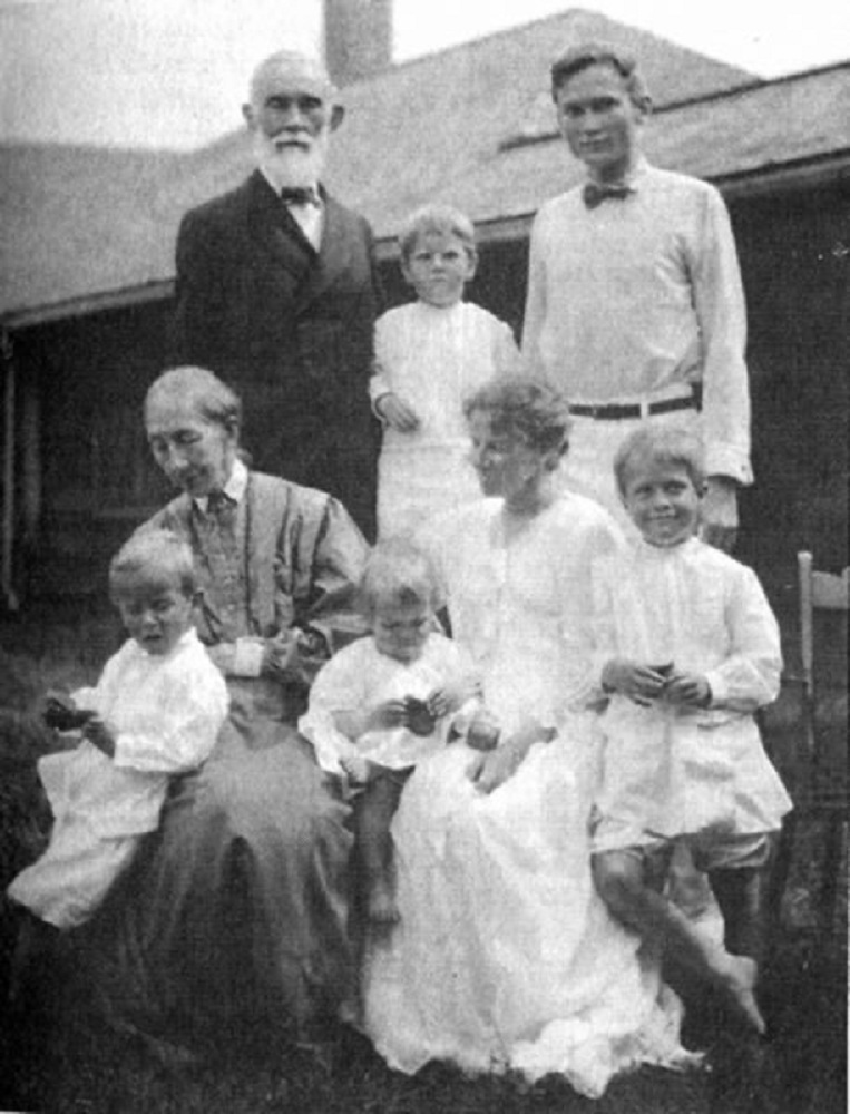 Photo of Bingham family in 1908. Left to right and back to front: Hiram Bingham II, his grandson Hiram IV, his son Hiram III, Lydia Bingham Coan (his sister), Hiram III's wife Alfreda and three of Hiram III's other sons, Alfred, Charles and Woodbridge.